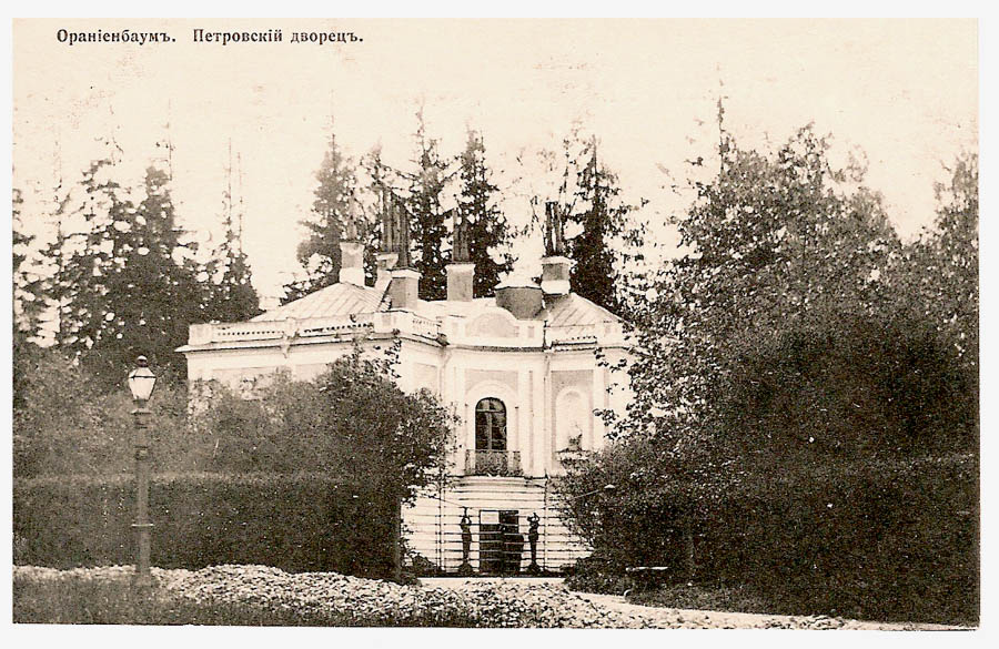 Oranienbaum. Peter's palace